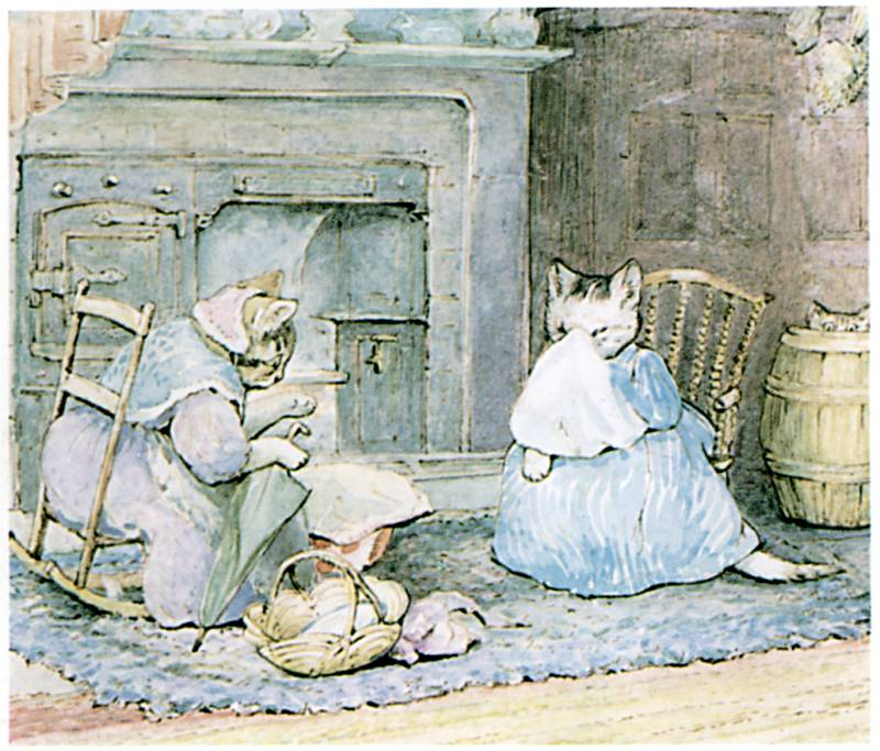 Title illustration from The Tale of Samuel Whiskers or The Roly-Poly Pudding